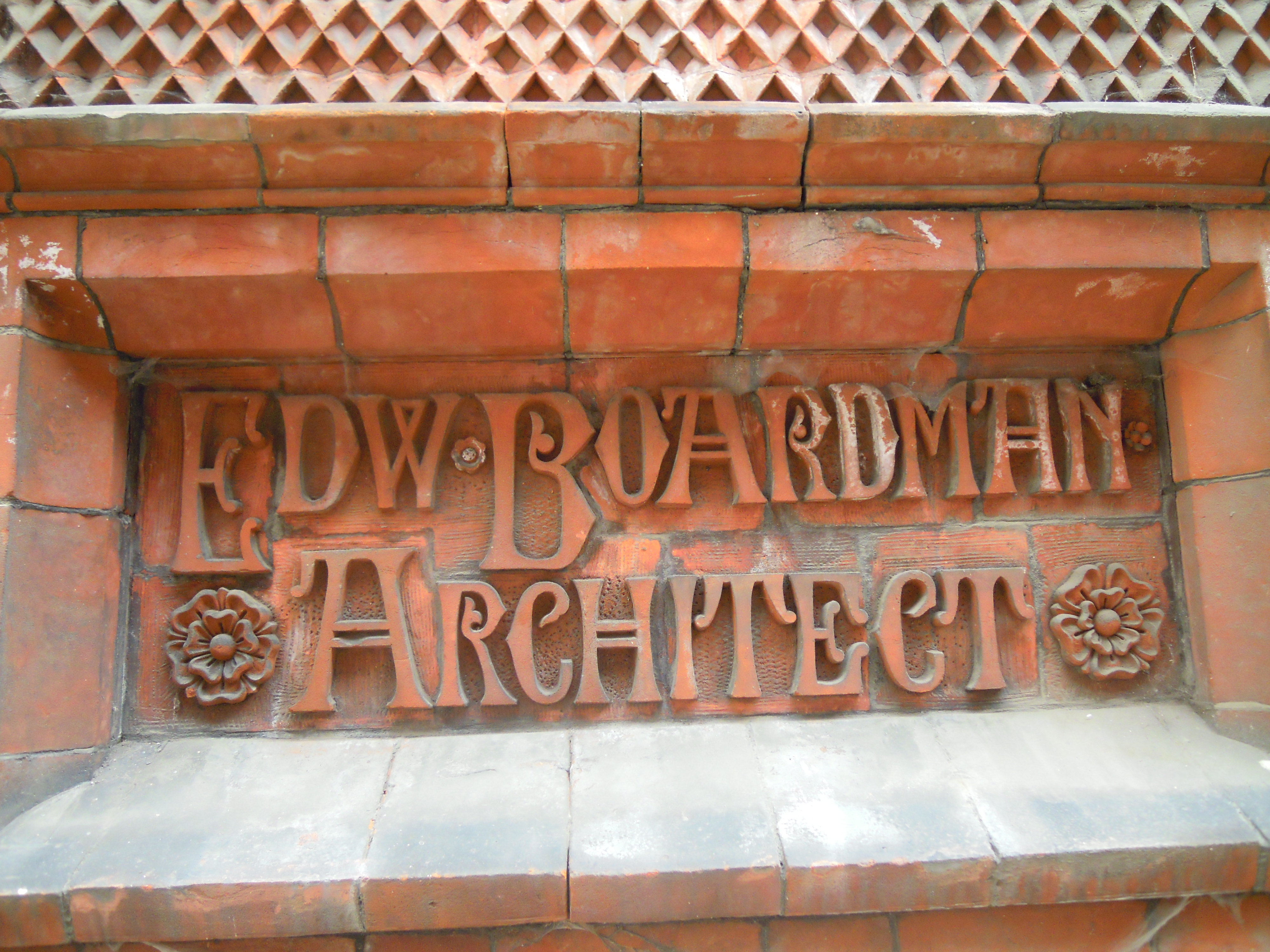 Cosseyware Brickwork Sign outside the Former Office of Edward Boardman in Old Bank of England Court, Queen Street, Norwich, Norfolk, United Kingdom.